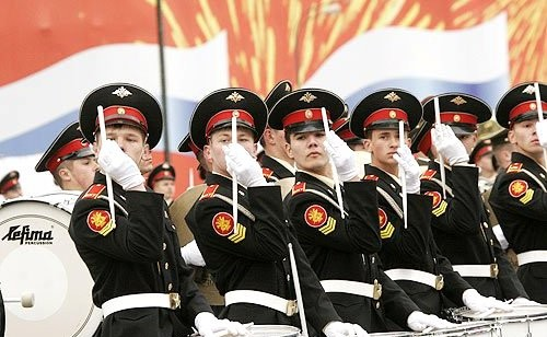 A military parade celebrating the 62nd anniversary of Victory in the Great Patriotic War took place on Red Square